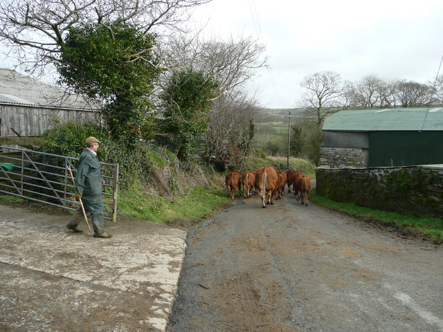 Moving the beasts Yes the last animal is a bull - not counting the farmer!